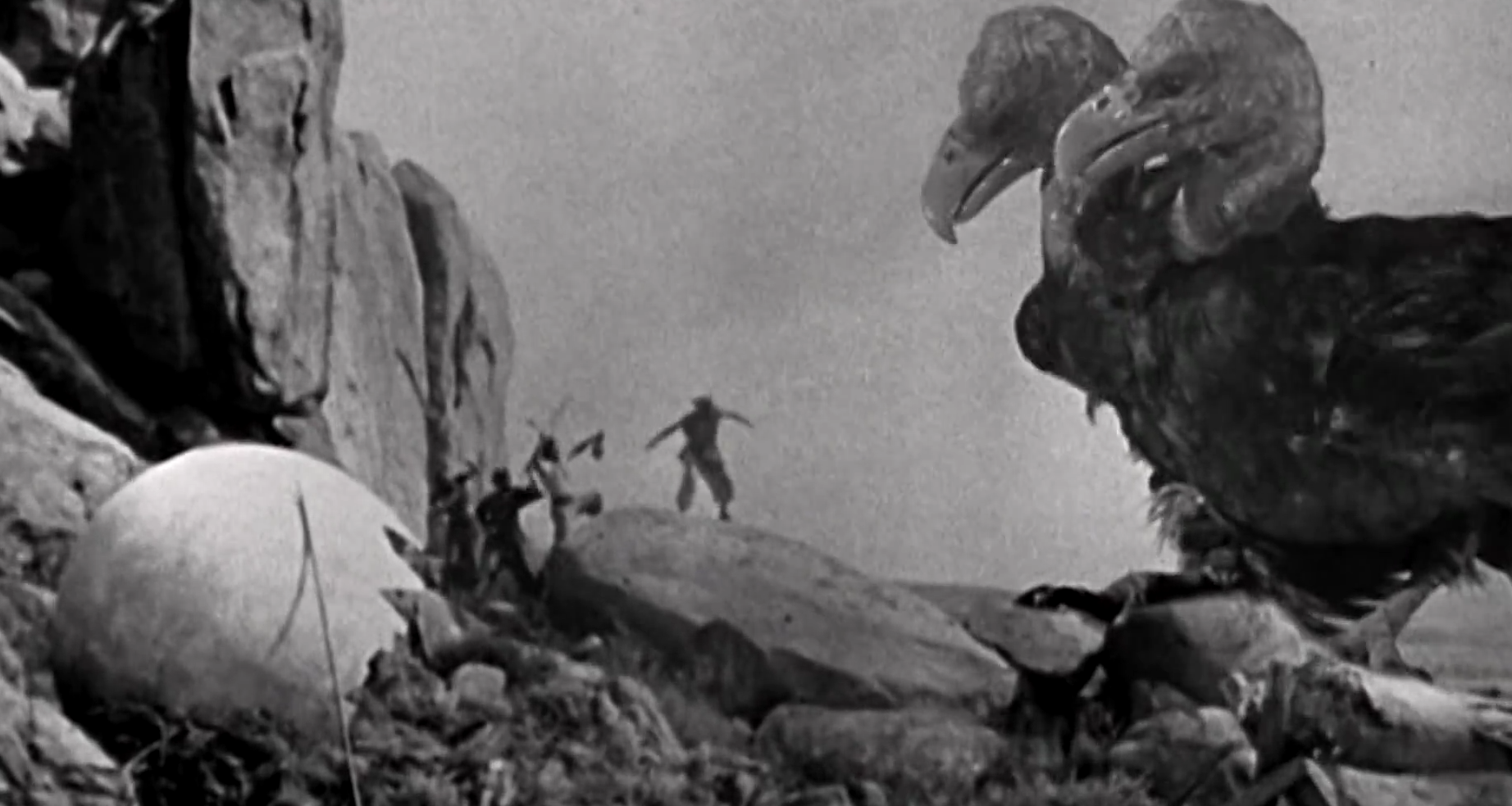 The roc scene from The 7th Voyage of Sinbad.